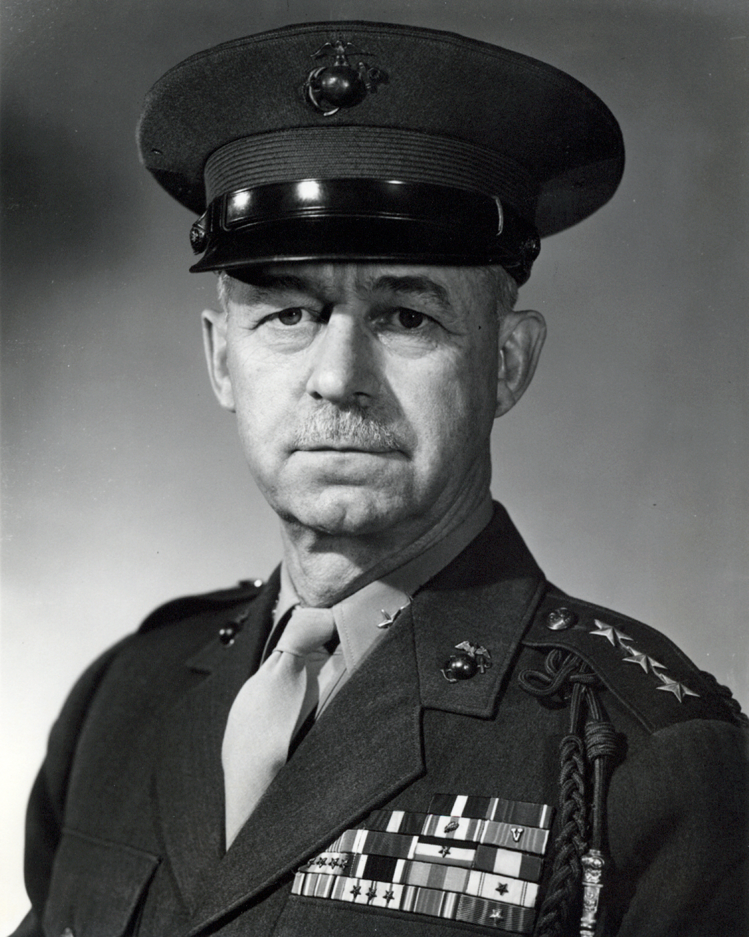 Merwin Hancock Silverthorn, USMC (1896 -1985) Lieutenant General and former Assistant Commander of the USMC.